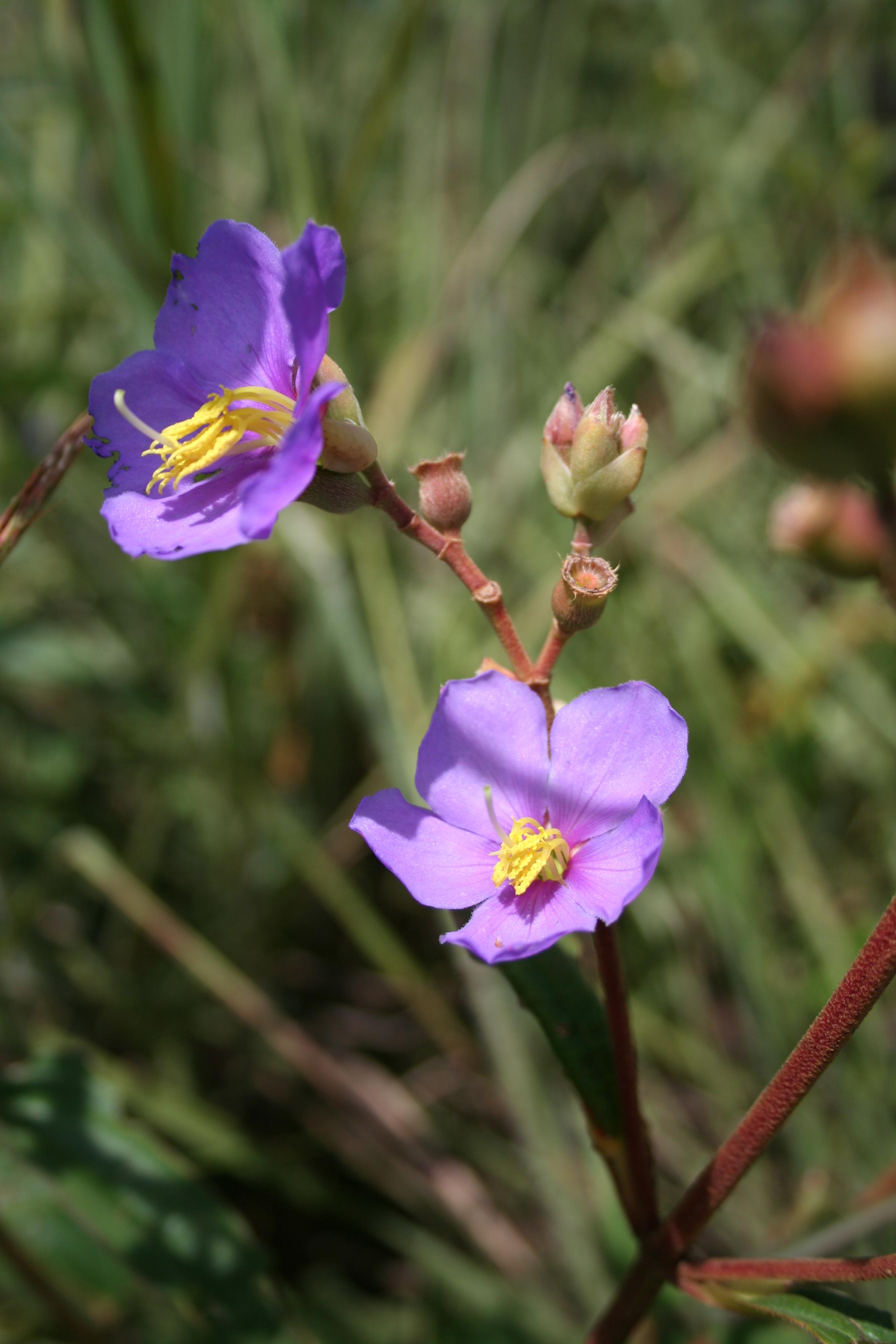 flowers of Dissotis elliotii, near Dieri, SW Burkina Faso